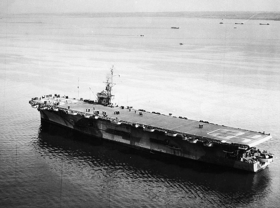 The U.S. Navy escort carrier USS Kasaan Bay (CVE-69) off Gould Island in Narragansett Bay, Rhode Island (USA), 16 September 1944.